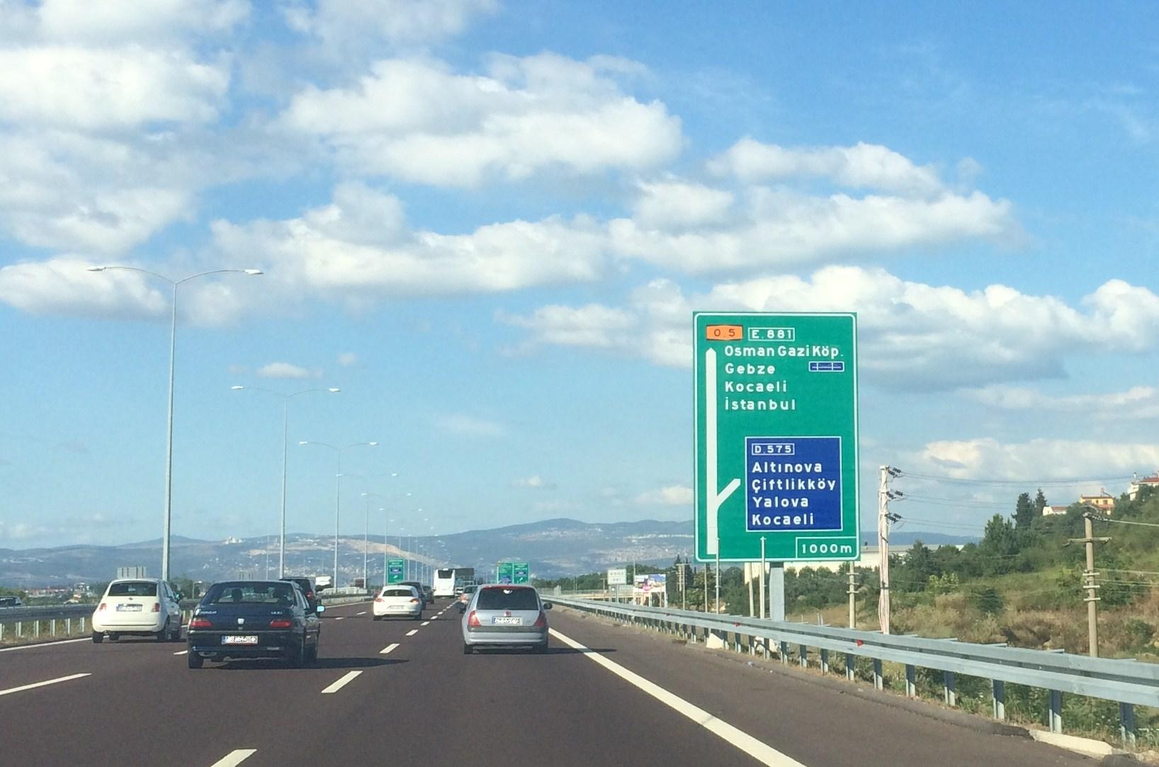 To Osman Gazi Bridge from Altınova side